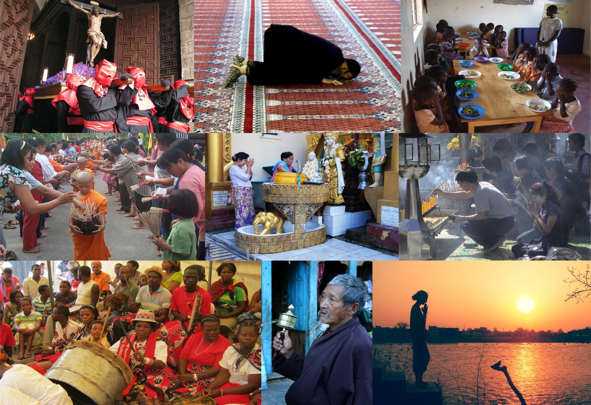 Altered collage File:Religion collage (large).jpg to a more neutral depiction of religions (original alteration on 2014-08-08 by Nirmalvg used an unsourced image; further alteration on 2015·02·06 by Kalki uses a sourced image).